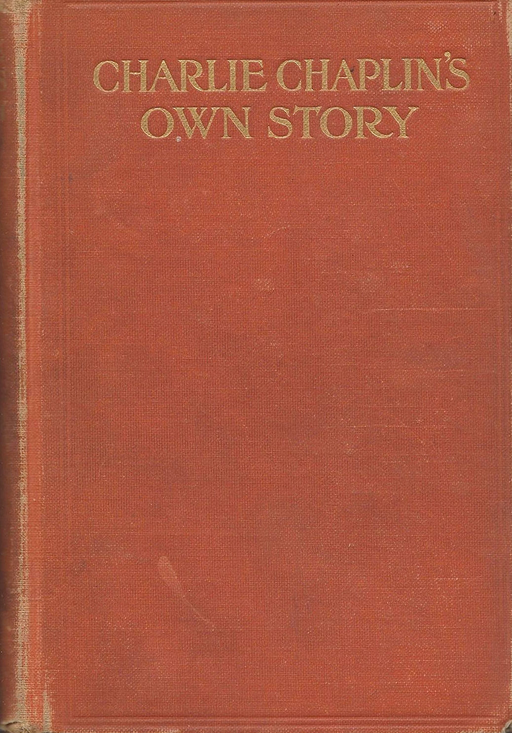 Rose Wilder Lane Charlie Chaplin's Own Story